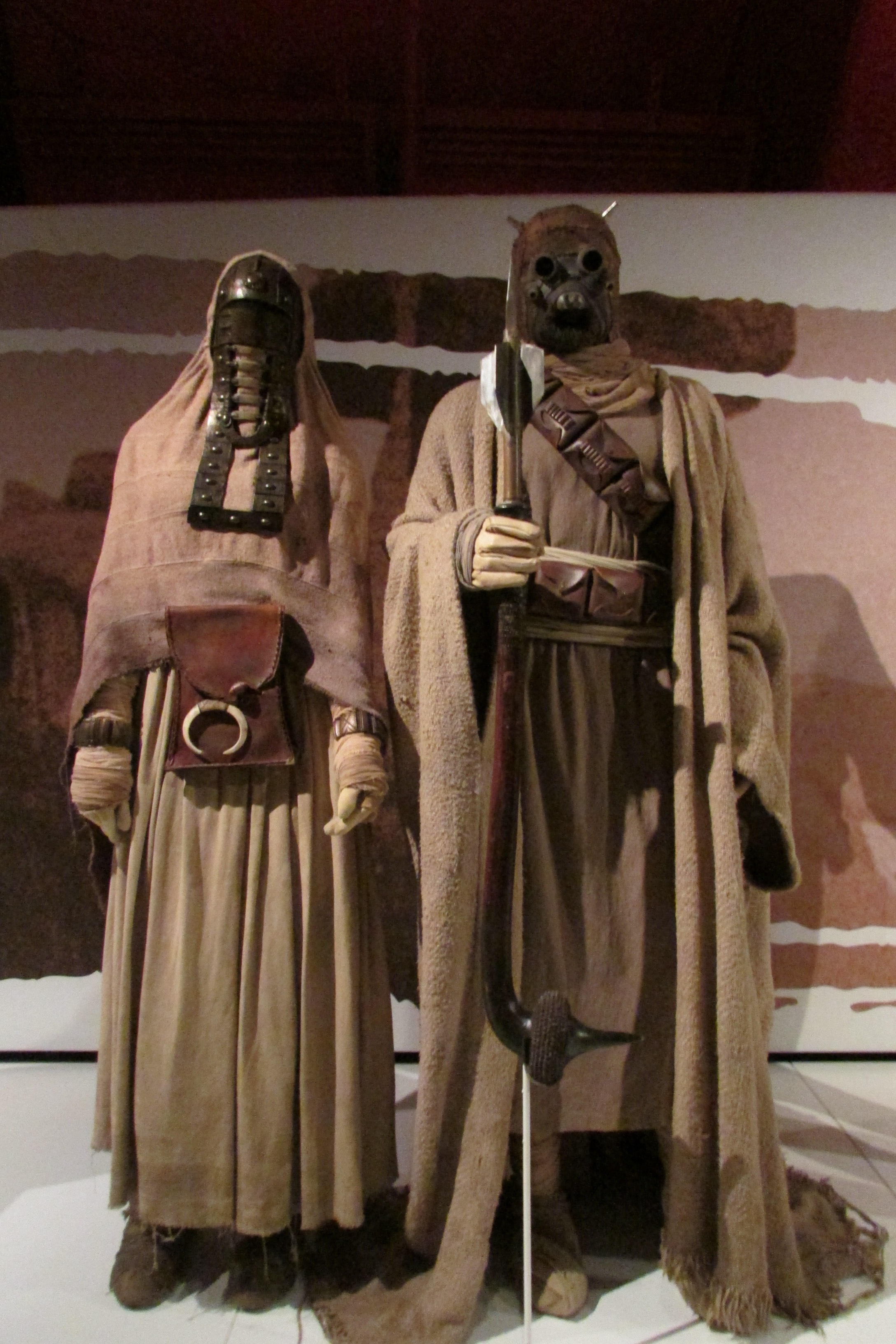 Costumes of the Desert People at the EMP in Seattle.